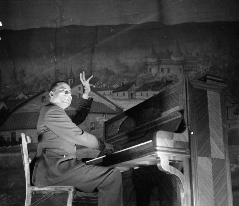 Royal Air Force Operations in the Middle East and North Africa, 1939-1943. Flying Officer Reginald Foresythe, the well-known pianist, bandleader and composer, entertains members of No. 325 Wing RAF at the piano during a performance of the Services variety show, "Entertainment Pie", at Setif, Algeria.